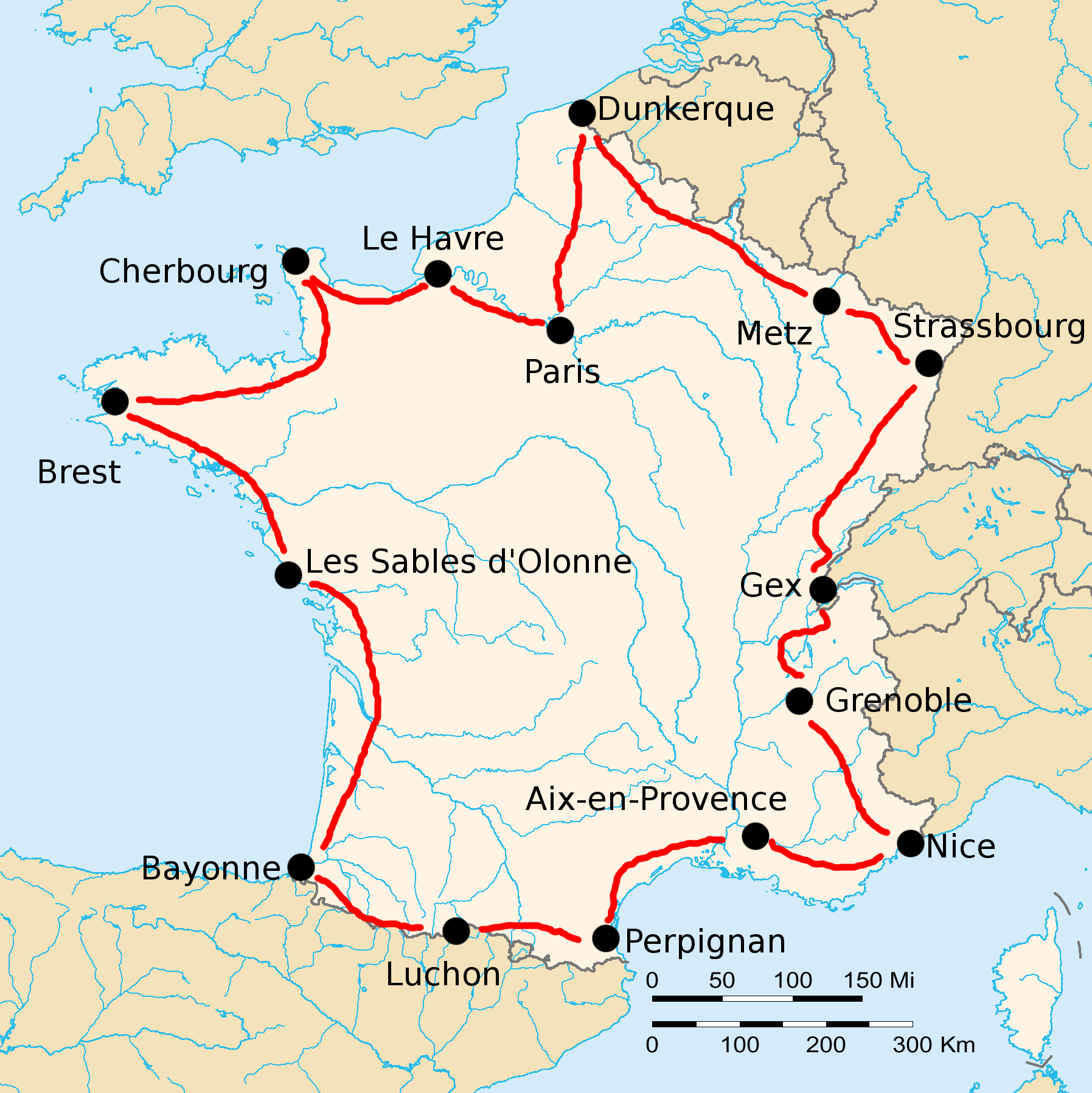 Route of the 1920 Tour de France, starting in Paris, run counter-clockwise.